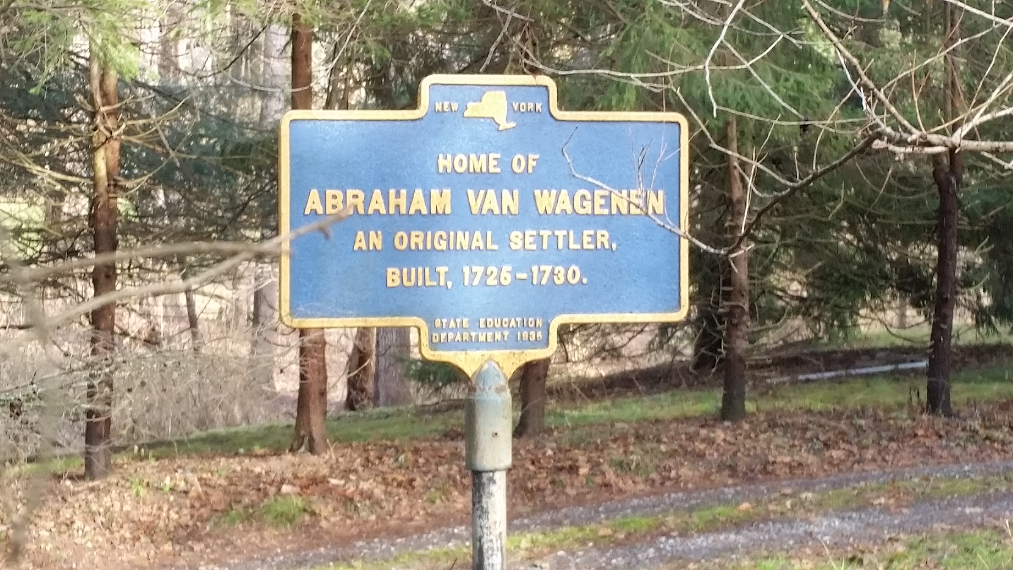 New York State historical marker for the home of Abraham Van Wagenen